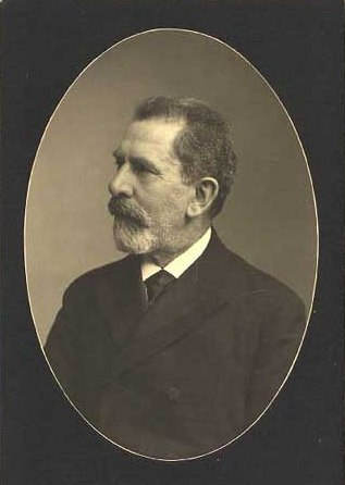 Danish solicitor/lawyer, politician, MP Peder Gregers Christian Jensen (1840-1911)